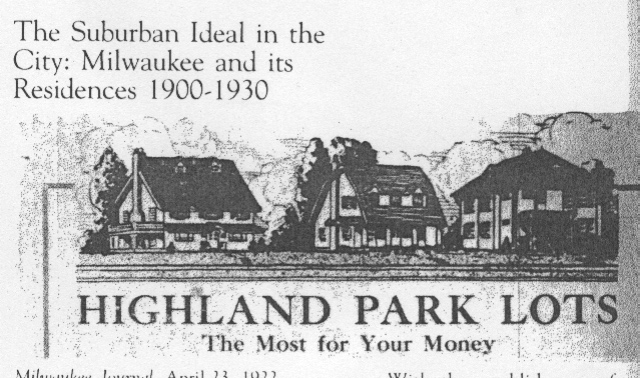 Advertisement for a home in "Highland Park" (later on Highland Boulevard). Some of these homes are now included within Martin Drive Neighborhood.